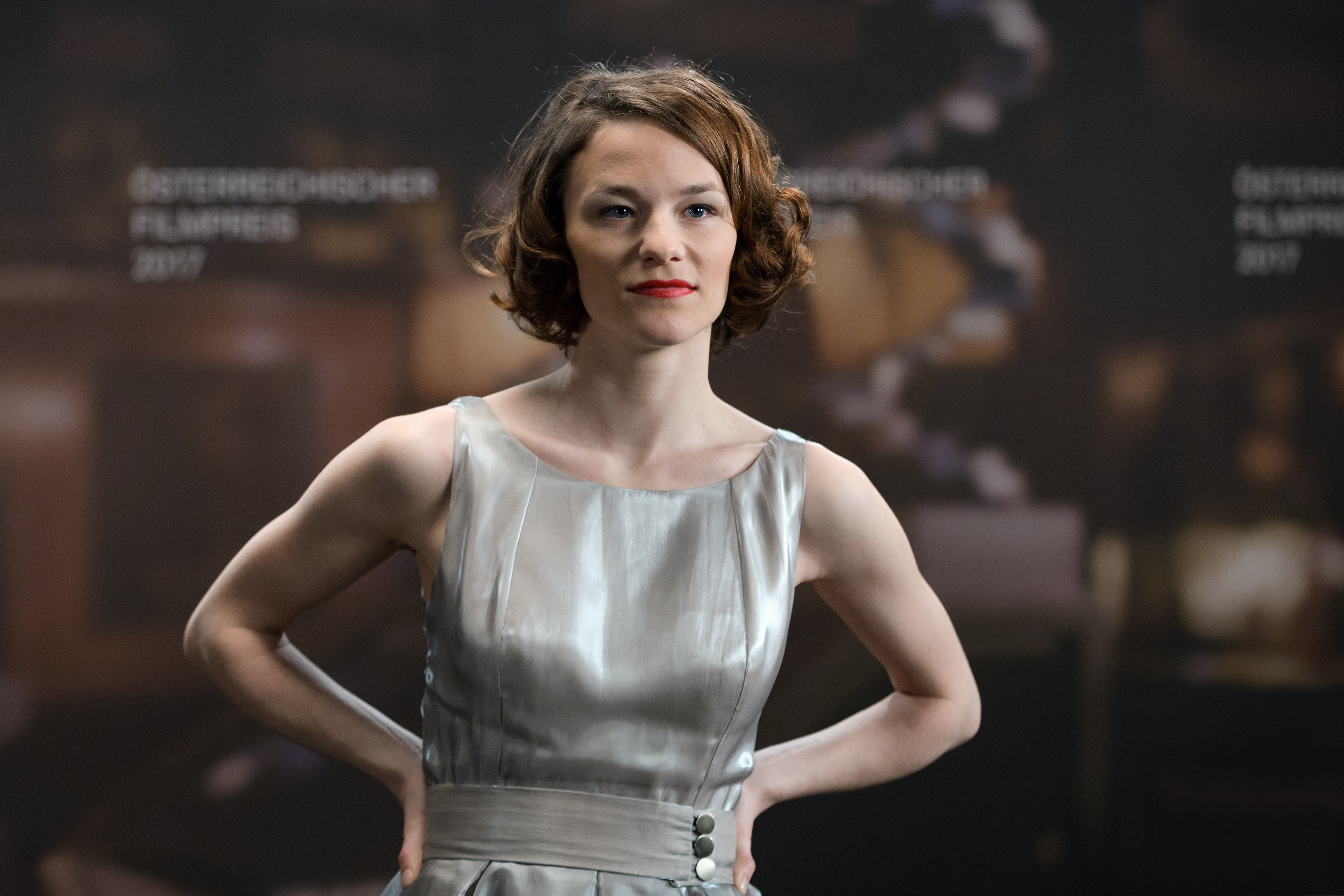 Valerie Pachner, actress in Egon Schiele: Tod und Mädchen, at the Austrian Film Awards 2017 (Rathaus, Vienna,Austria).